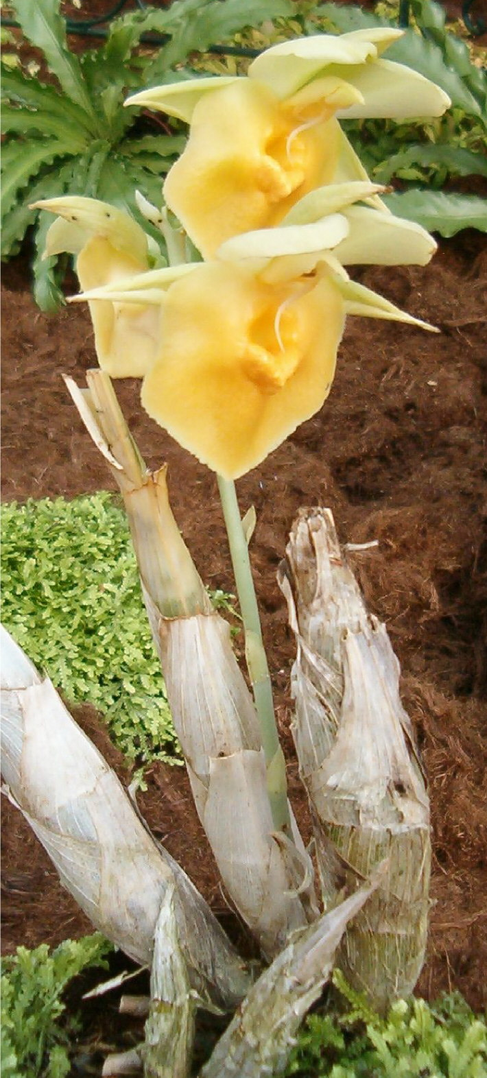 Catasetum expansum, Habitus and Flowers Location: Botanical Gardens Berlin - Orchid Exhibition